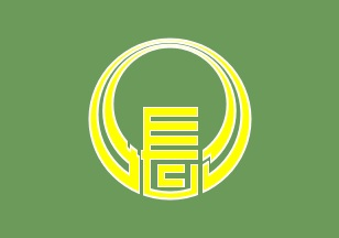 Flag of Chonan Chiba